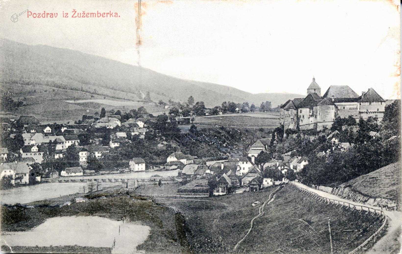 Postcard of Žužemberk.